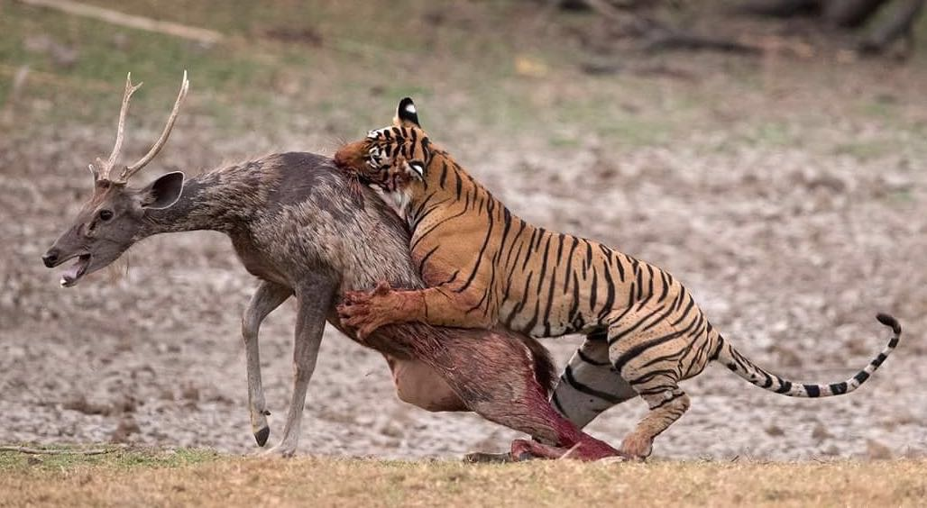 The picture was shot on zone 3 of Ranthambore tiger reserve.